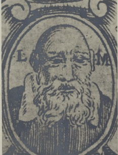 Leone Modena